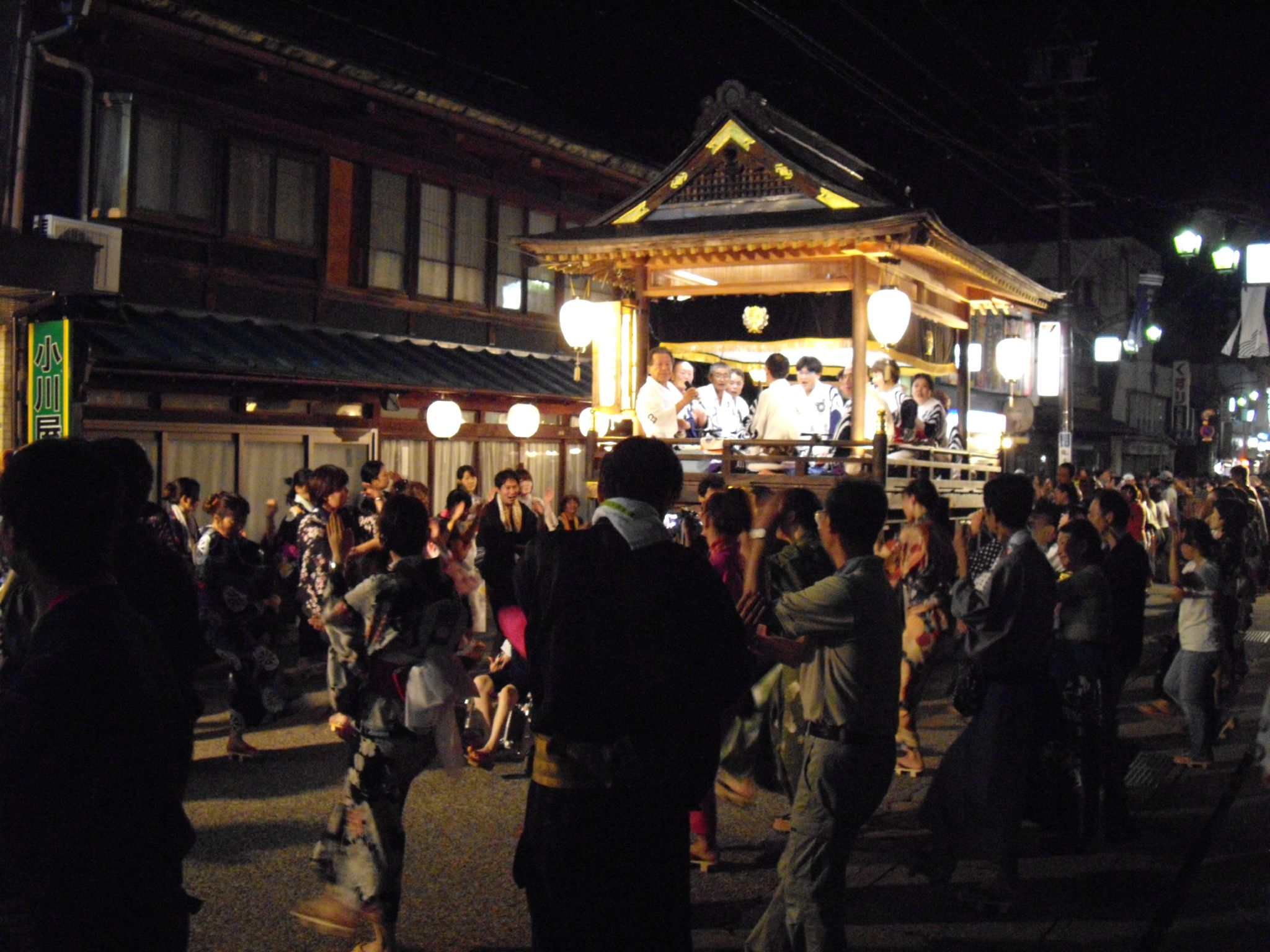 Gujo Odori in Gujohachiman, Gifu Prefecture, Japan